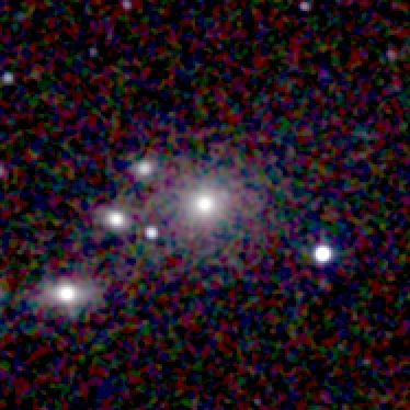 NGC 7012 Galaxy Group close up.